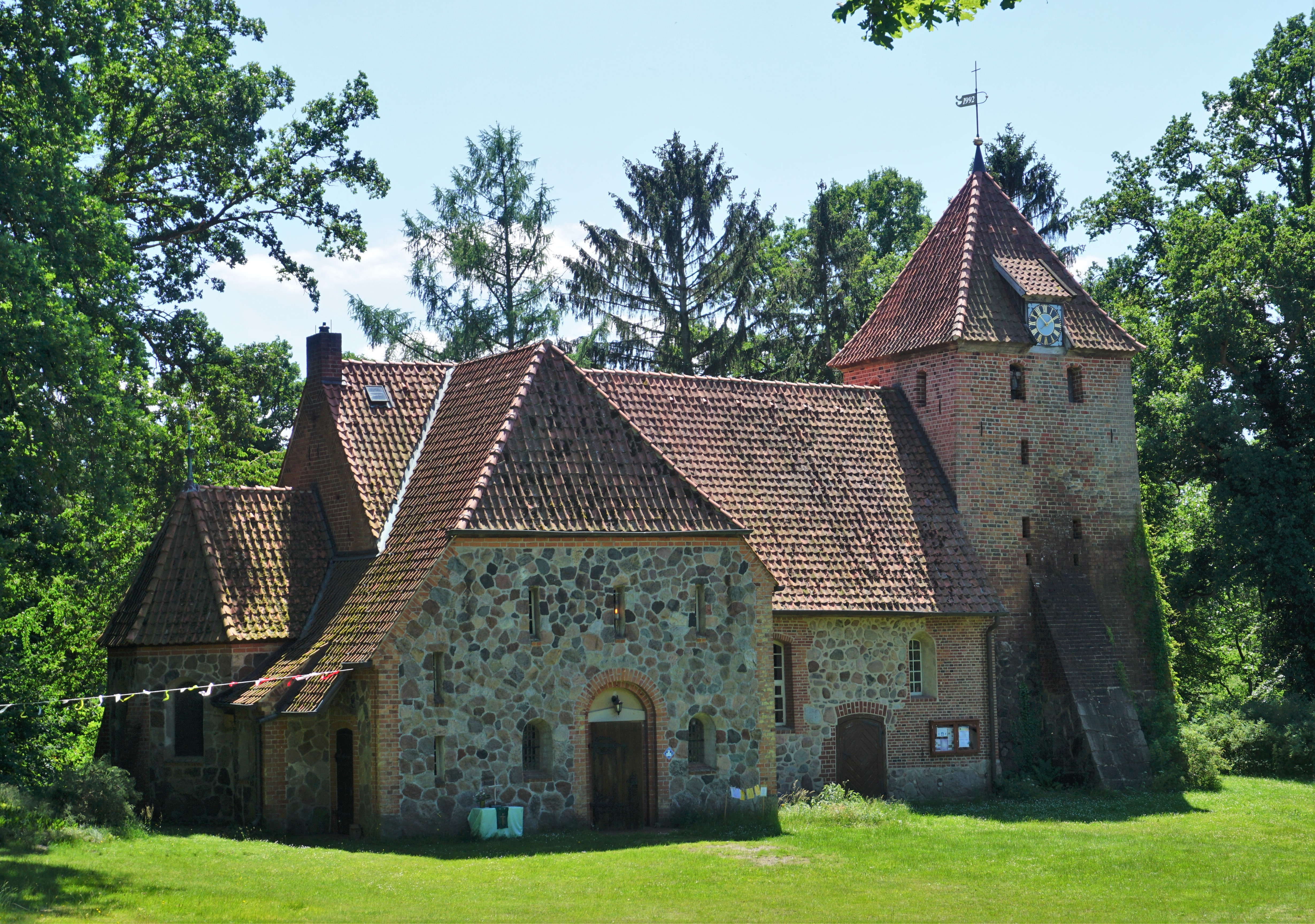 Northern view of the Peter and Paul Church in Thomasburg, district of Lüneburg.